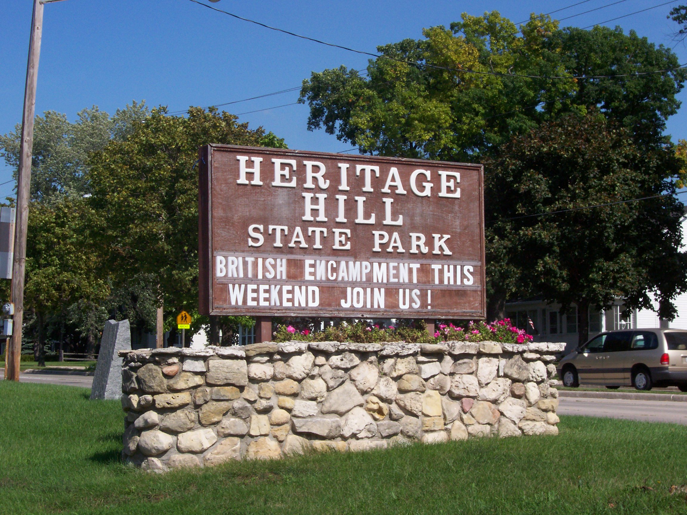 The sign for Heritage Hill State Park in Green Bay, Wisconsin.